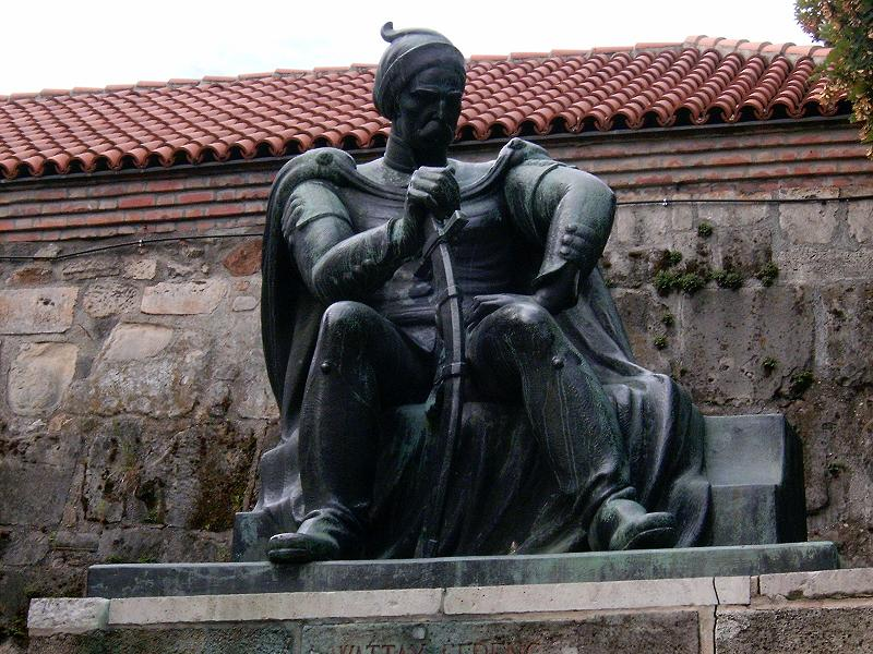 Ferenc Wathay's statue in Székesfehérvár, Hungary. Sculptor: Elek Lux, in 1937.